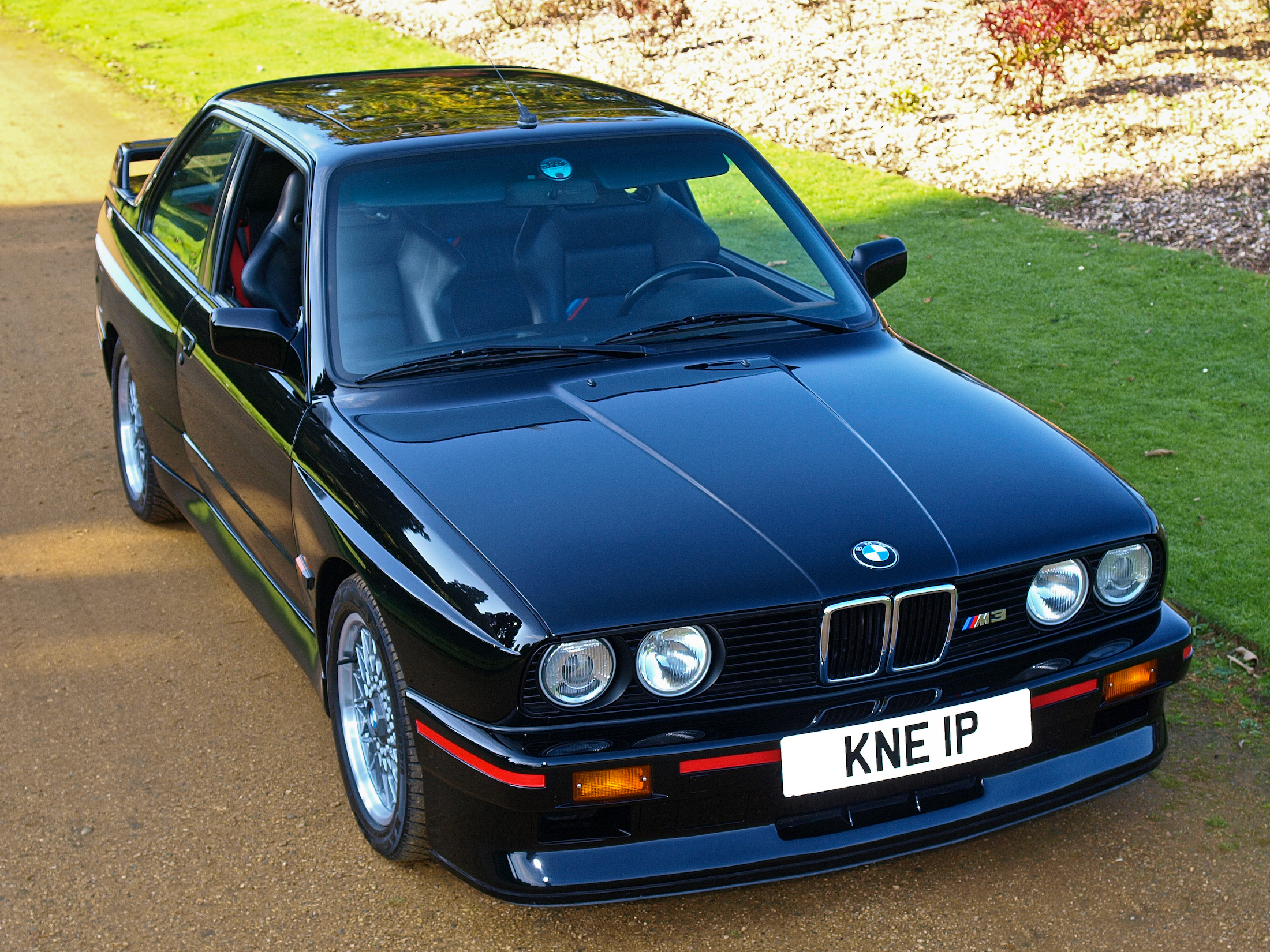 BMW E30 "M3 Sport Evolution" (one of only 600 cars ever built).